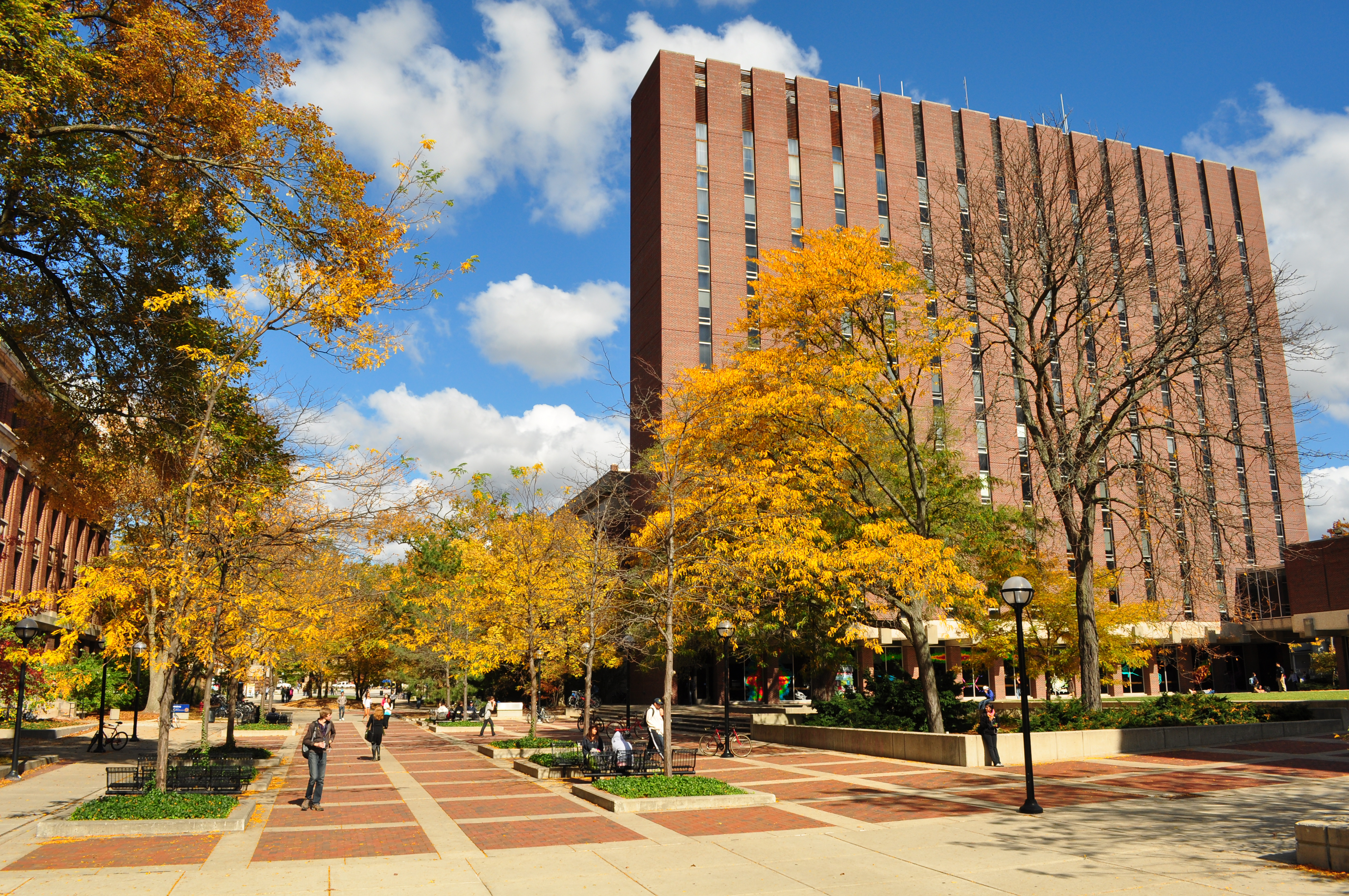 A photo the Dennison Building on the University of Michigan Campus, taken October 15, 2010.